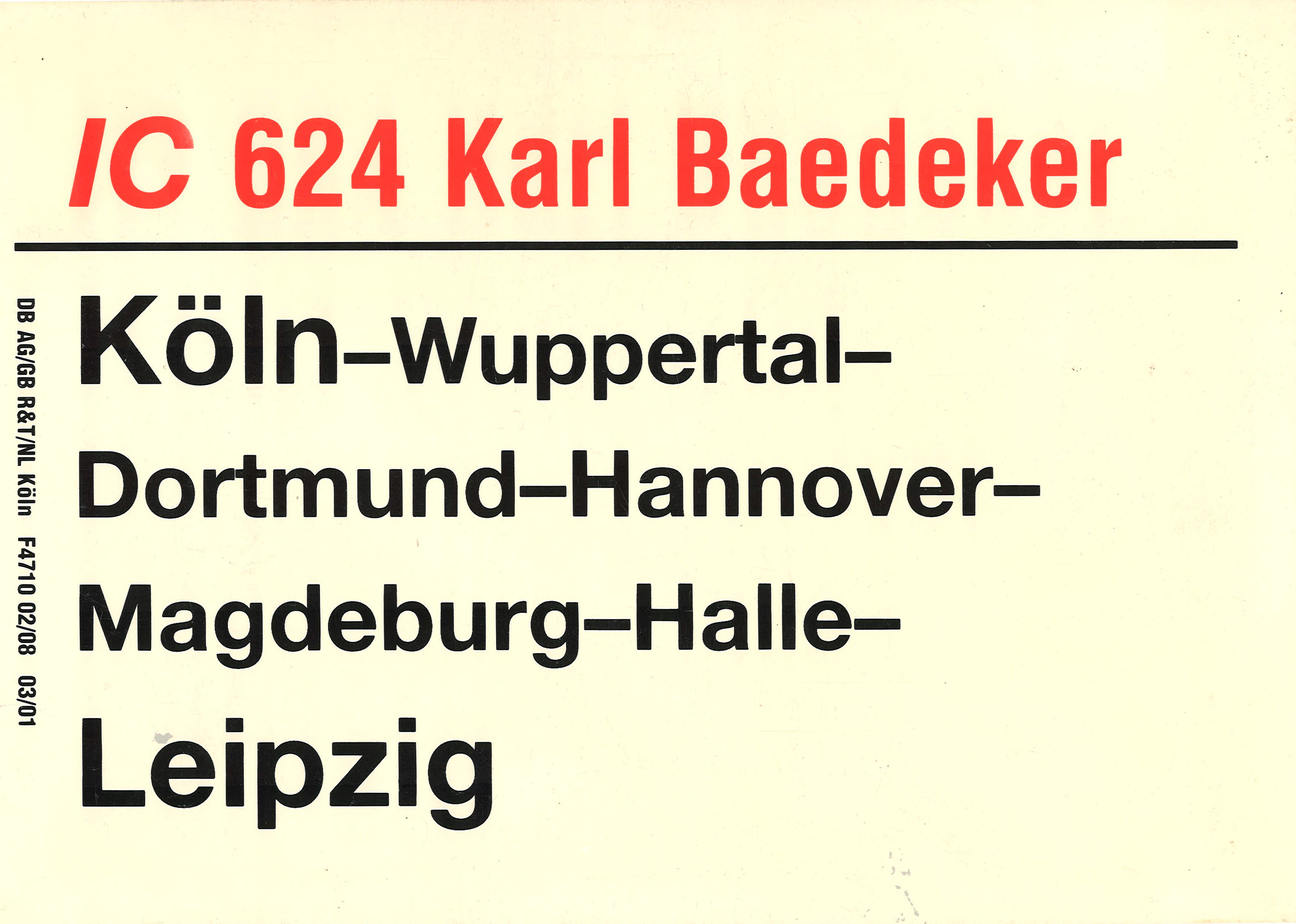 Sign of the former IC train Karl Baedeker 2001